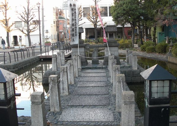 Ubagaike (Taitō, Tokyo, Japan)